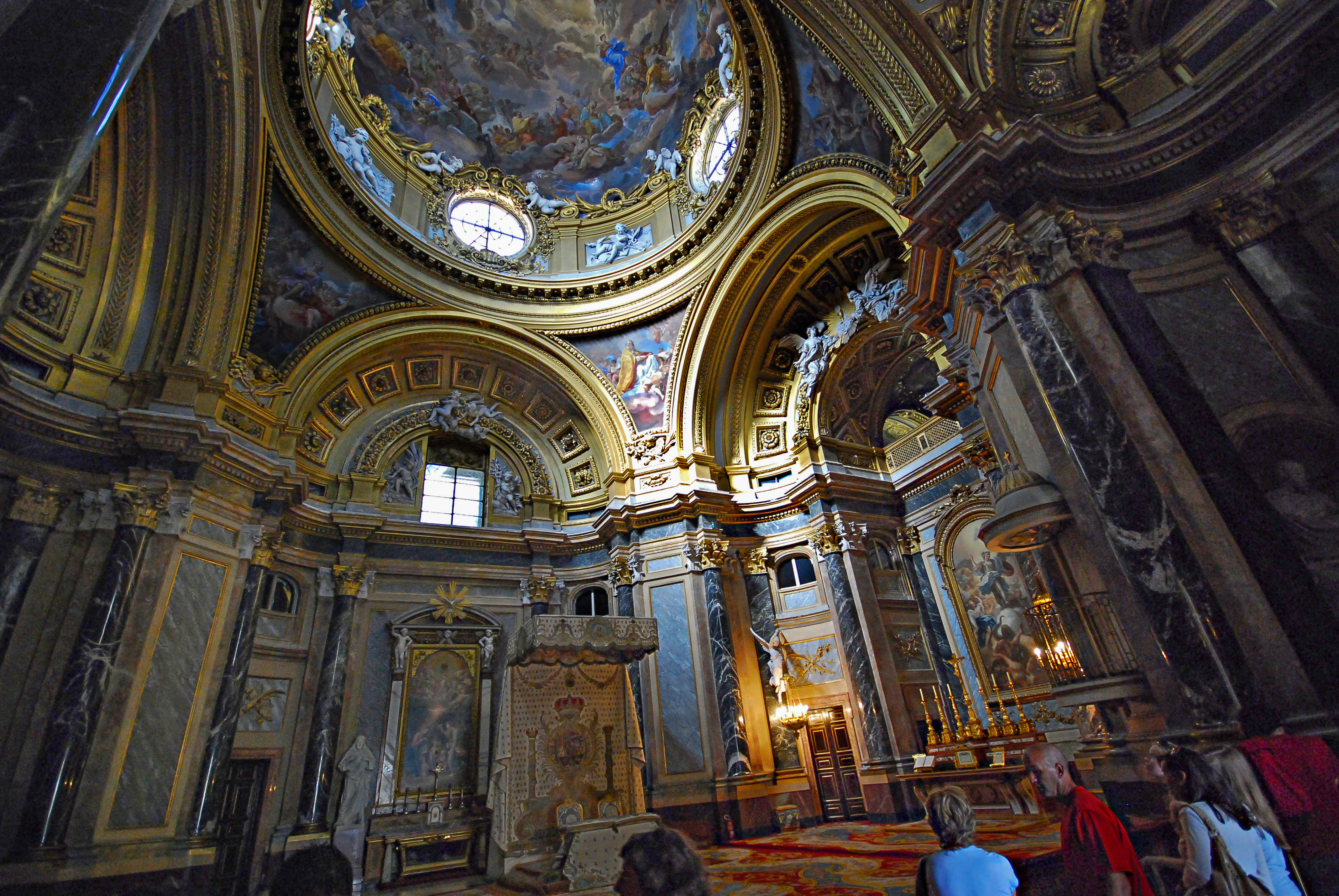 The Royal Chapel at the Royal Palace of Madrid (Spain). Designed by Ventura Rodríguez.